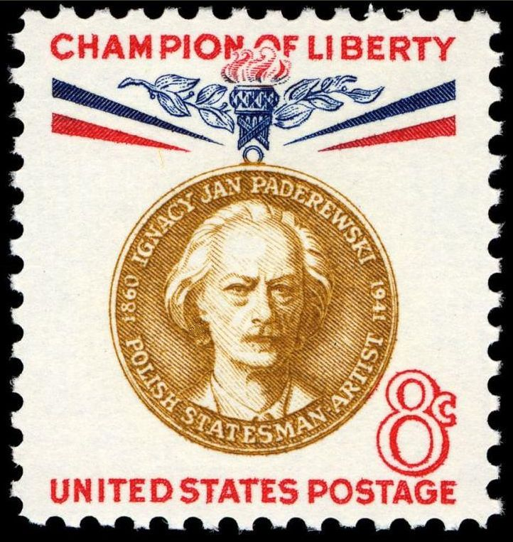 Image of Postage stamp commemorating Ignacy Jan Paderewski